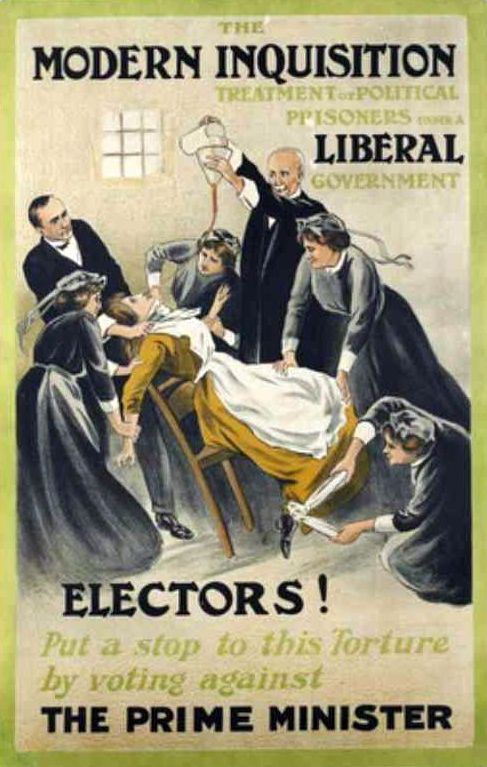 Women's Social and Political Union poster showing a suffragette prisoner being force-fed